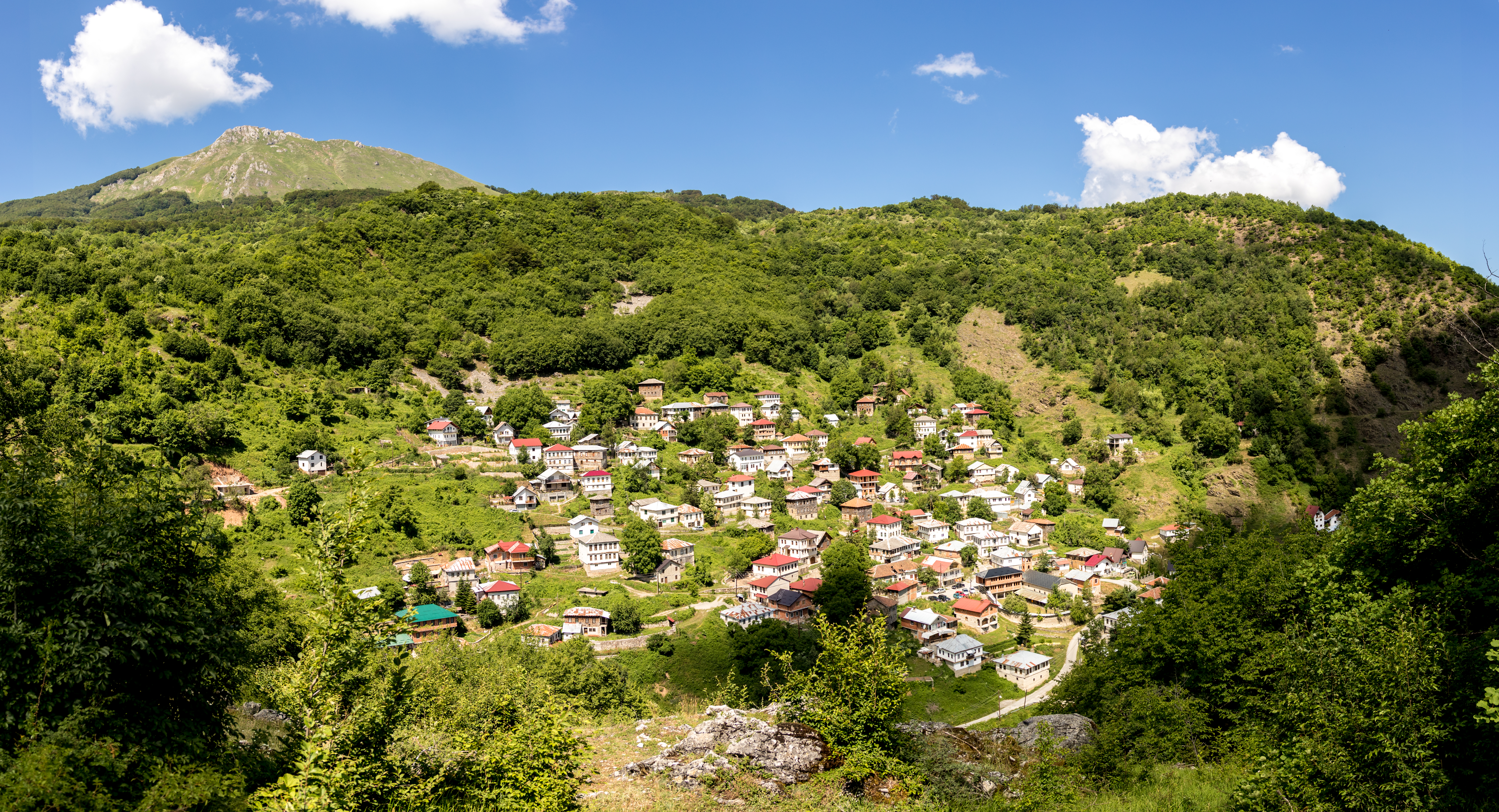 Panoramic view of the village of Gari, Macedonia